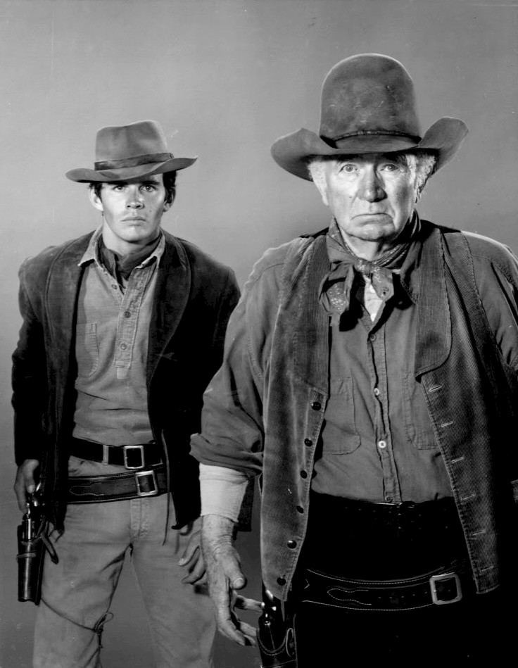 Photo of Dack Rambo and Walter Brennan as the two main cast members in the television Western, The Guns of Will Sonnett.